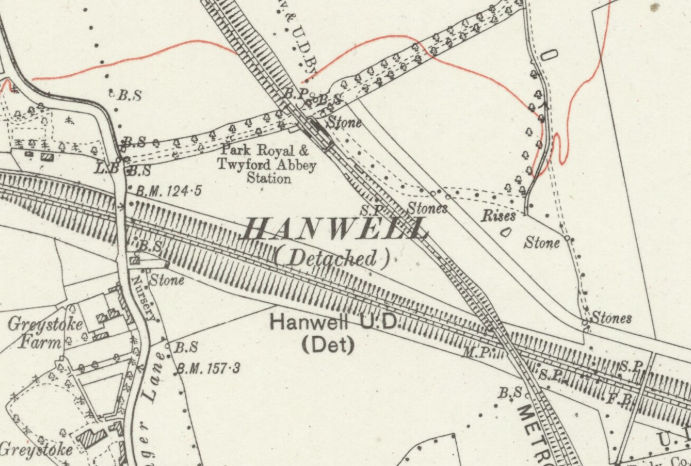 Ordnance Survey Map of Park Royal & Twyford Abbey Underground station, London.